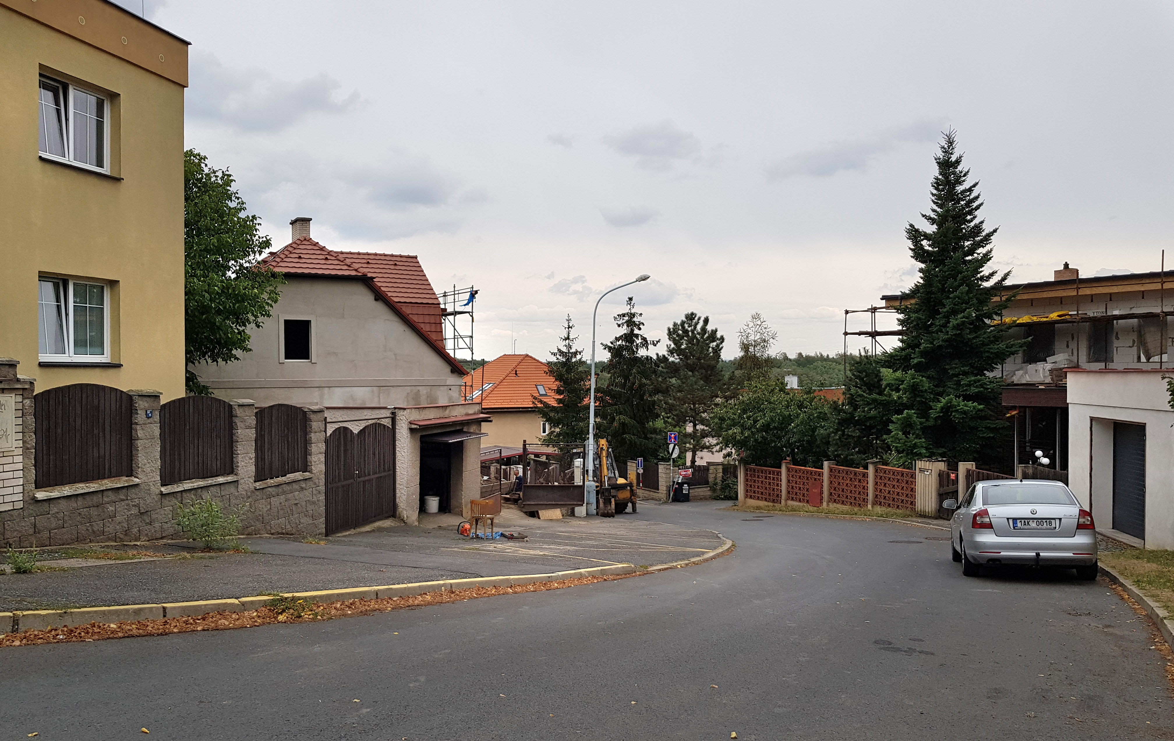 South part of Zdobnická street, Prague.